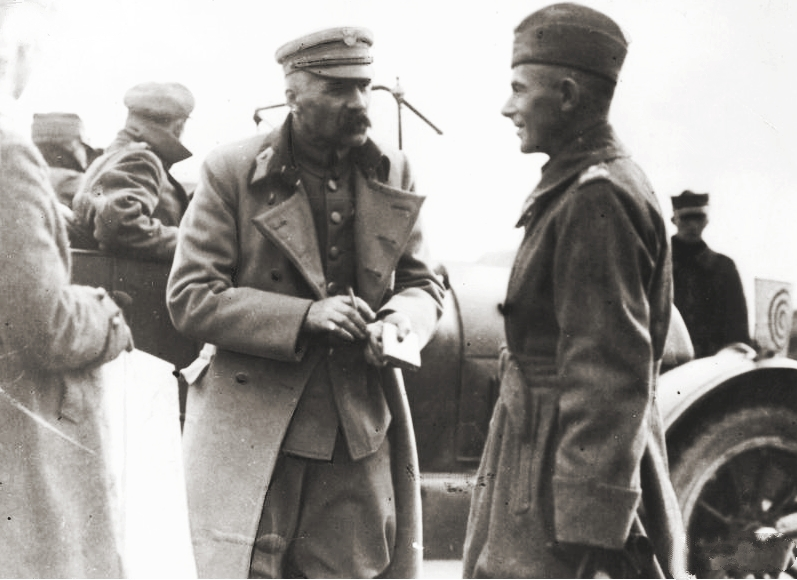 YJózef Piłsudski (1867-1935) and Edward Rydz-Śmigły (1886-1941) during the Polish-Bolshevik war. Photo taken in 1920. Public Domain.